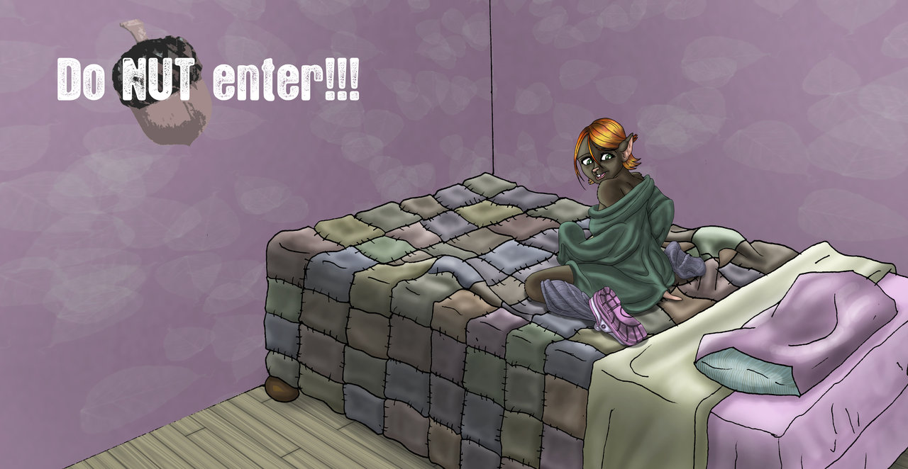 Here is a woman who is turning into an animal (squirrel)... This image include shrinking too.